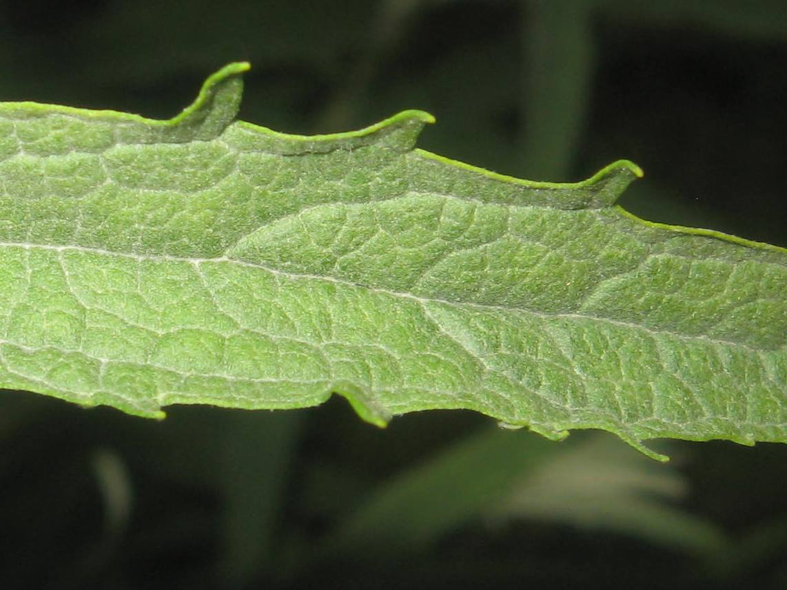 Photo of detail of Buddleja x wardii leaf, taken Portchester, UK